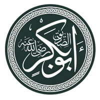 Abu bakr